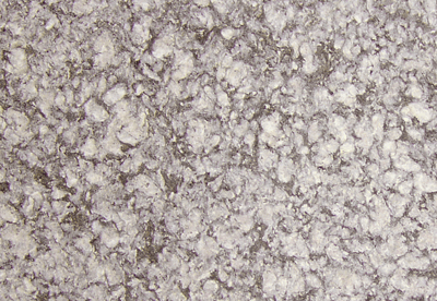 A photo of the surface (nature) of the rock Foerde Granite from Førde, Norway. Taken by Halvard, from Norway.